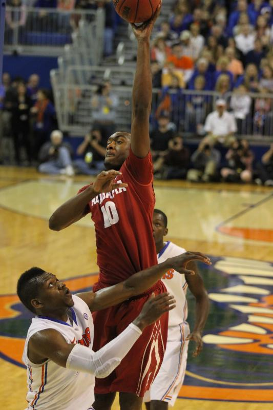 Jimmie Taylor (#10) making a shot against the University of Florida